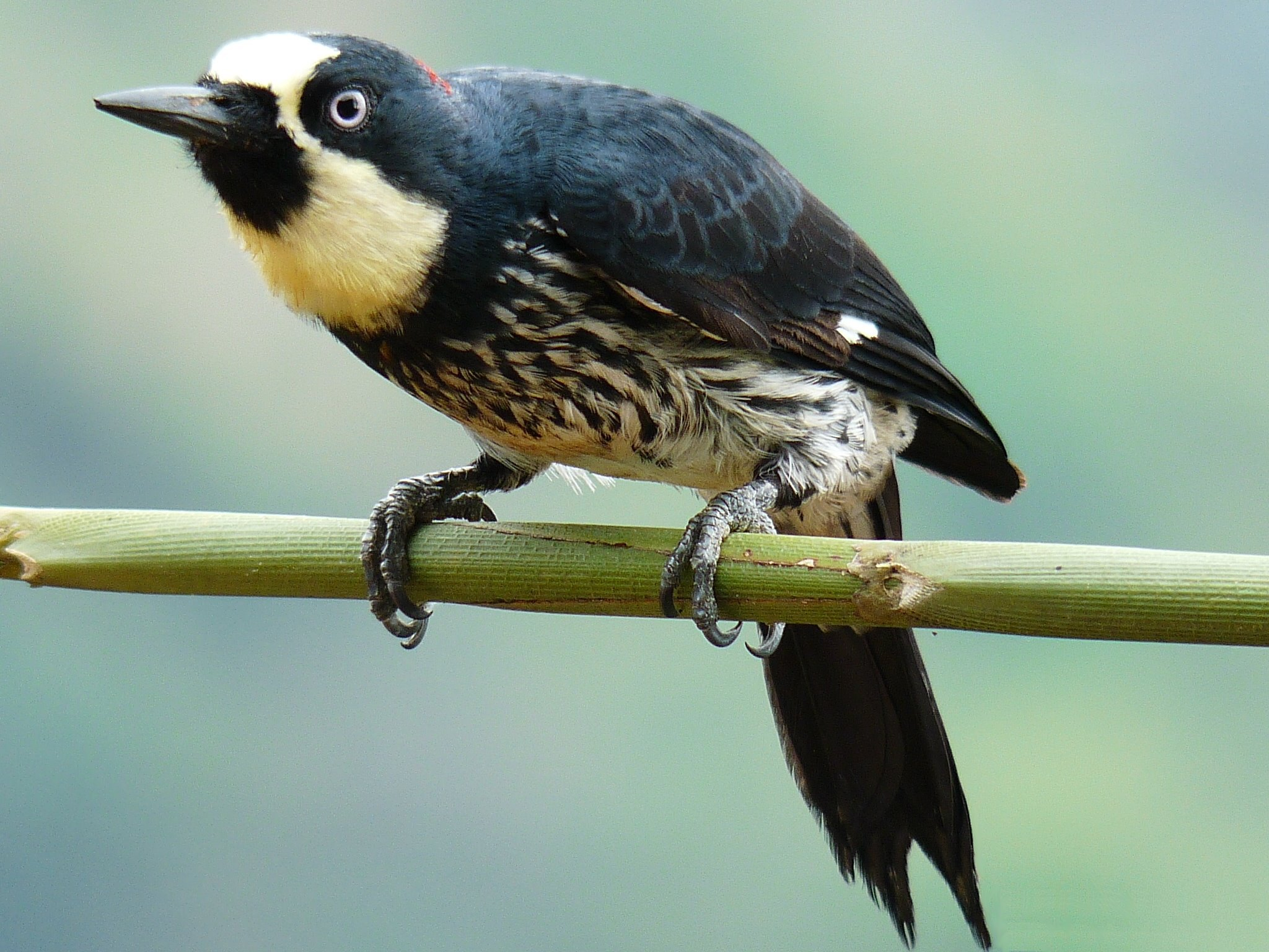 A female Acorn Woodpecker in Manizales, Colombia.